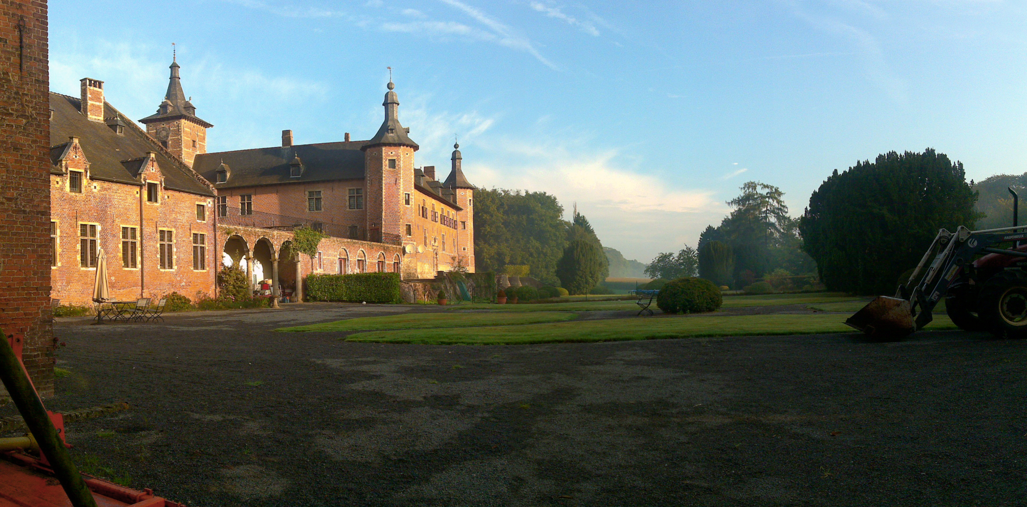 A view from the garden